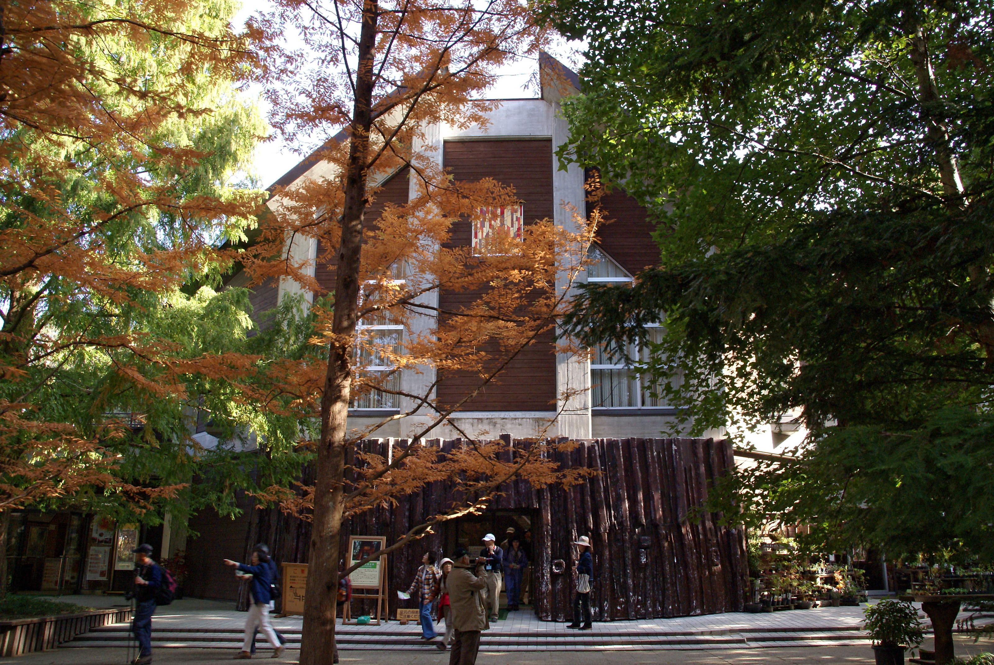 Kobe Municipal Forest Botanical Garden in Kobe, Hyogo prefecture, Japan